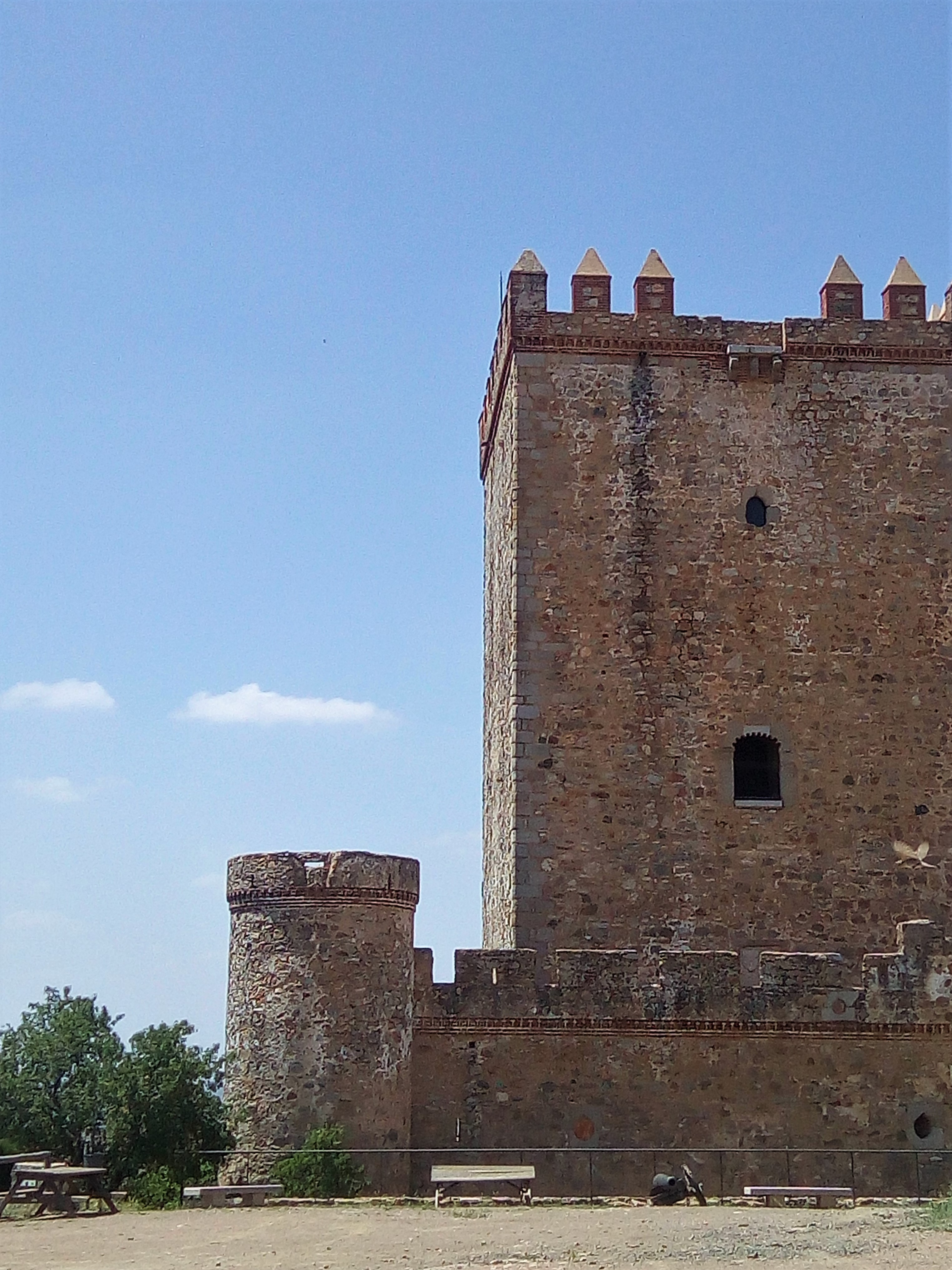 This is a picture of the Nogales Castle in the Municipality of Nogales, Province of Badajoz, Autonomous Region of Extremadura.